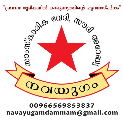 Official Logo of NAVAYUGAM CULTURAL FORUM, SAUDI ARABIA